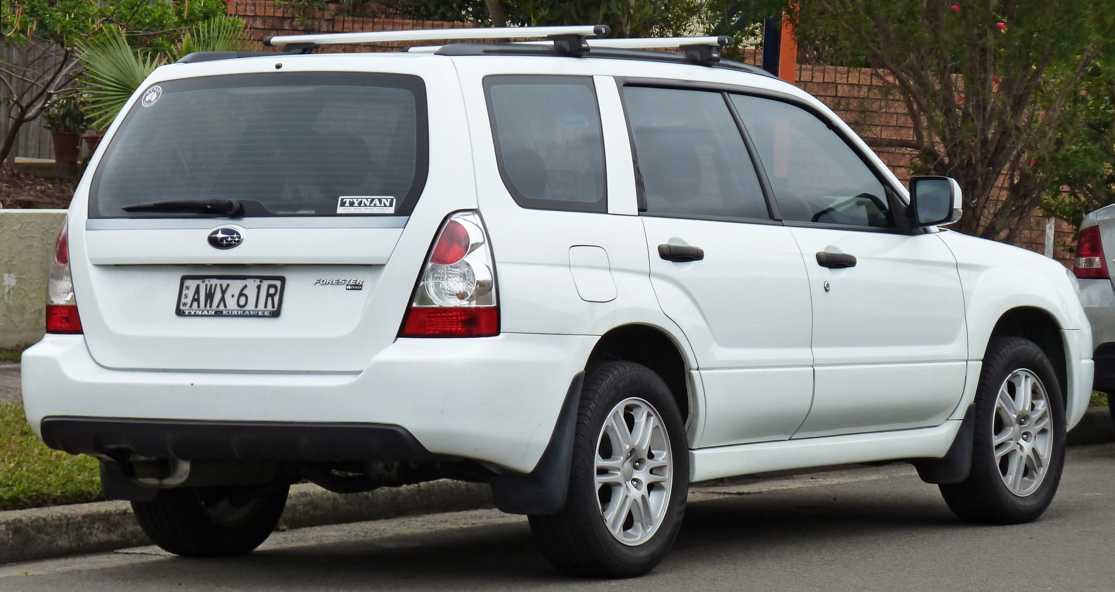 2005–2008 Subaru Forester XS wagon, with 2002–2005 Subaru Forester XT alloy wheels. Photographed in Sandringham, New South Wales, Australia.